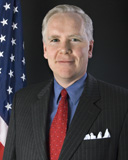 Official Federal Energy Regulatory Commission photograph of Chairman Joseph T. Kelliher taken in 2005